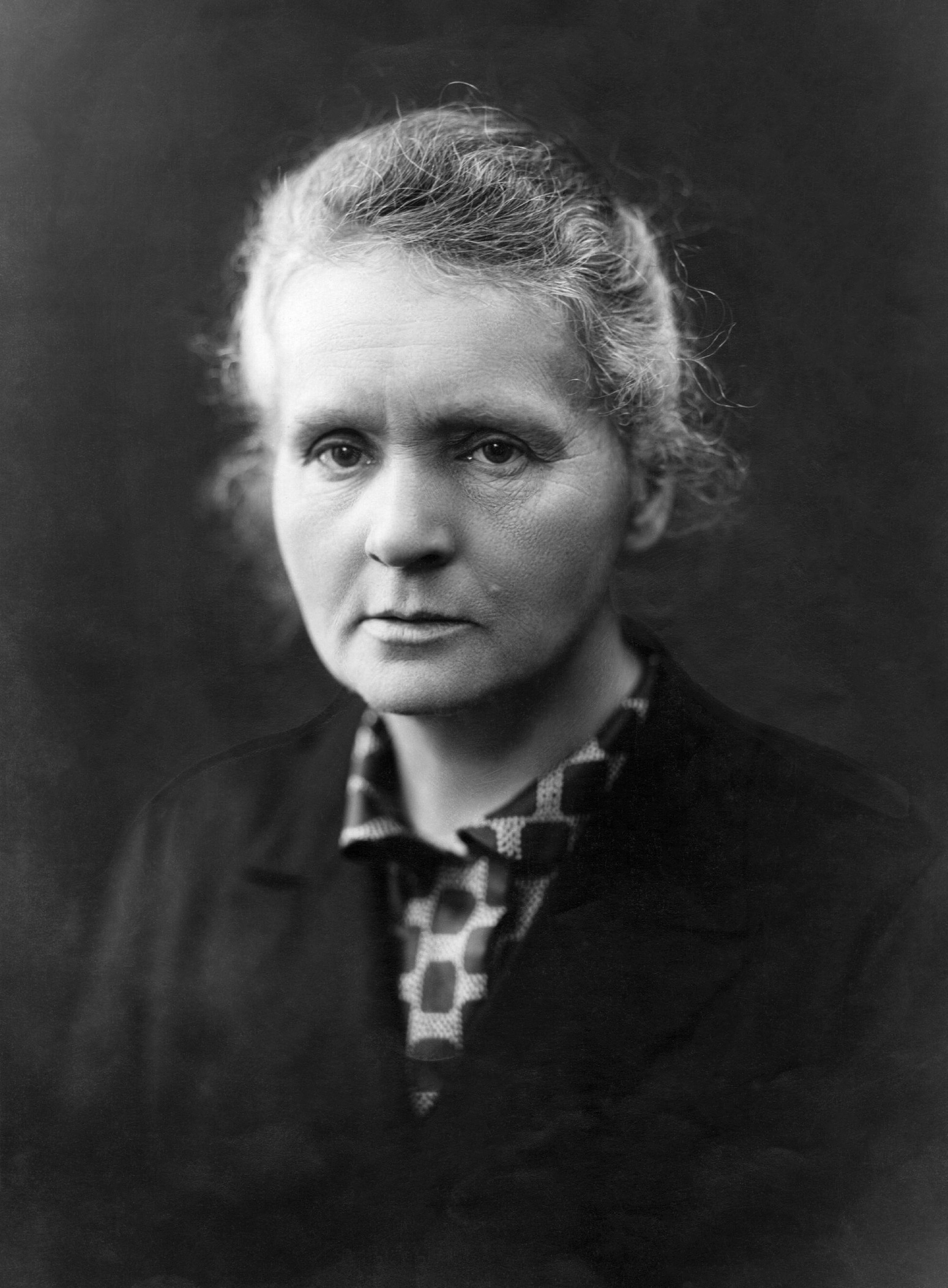 Depicted person: Marie Curie